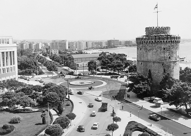 The White Tower in Thessaloniki, Greece, 1970.